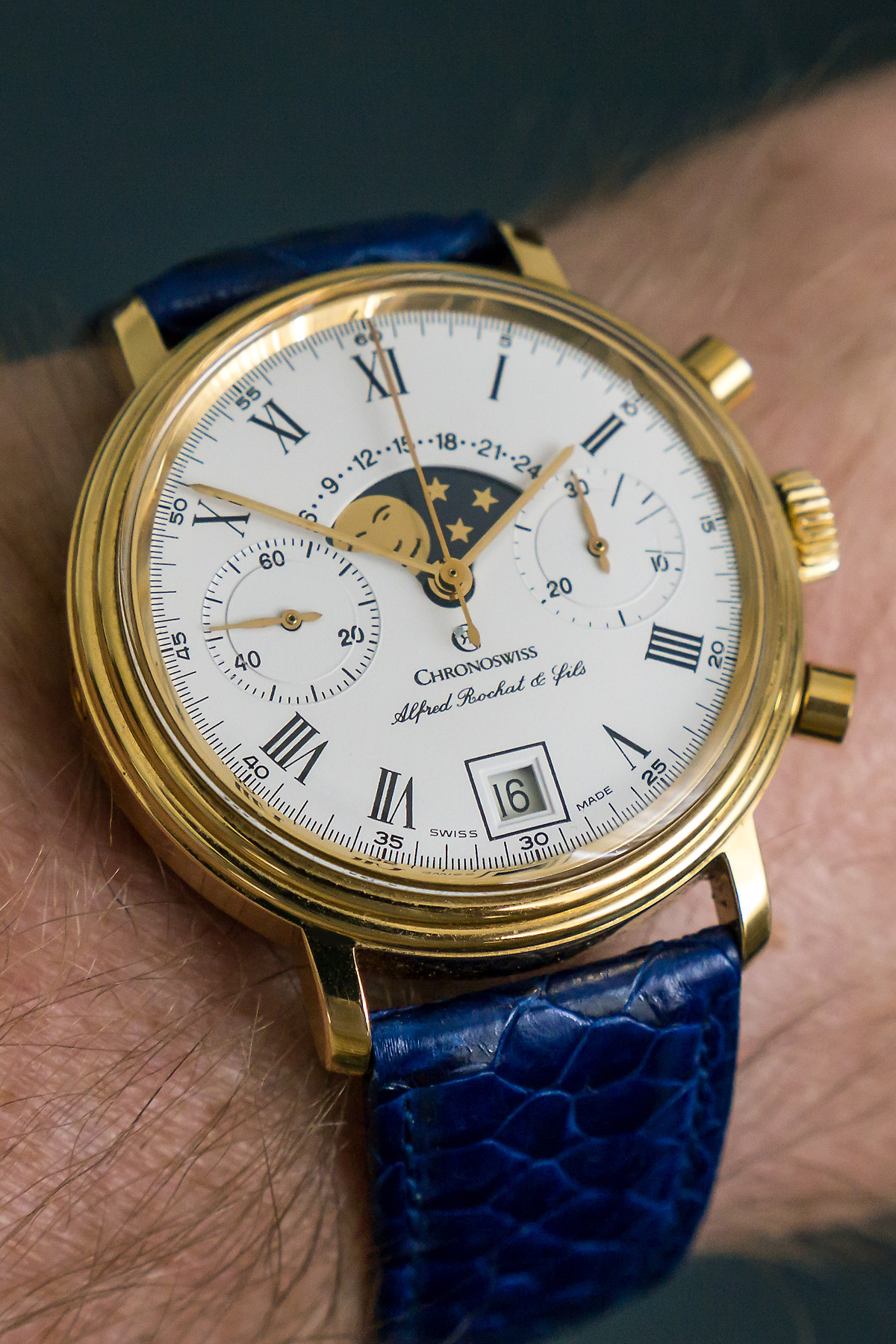 Chronoswiss Chronograph - Alfred Rochat & Fils, 1988